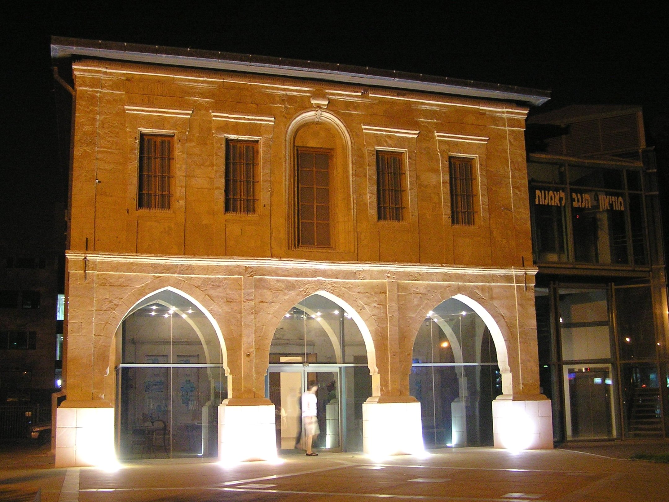 The Ottoman district officer building in Beersheba. Today it is used as the Negev Art Mueseum